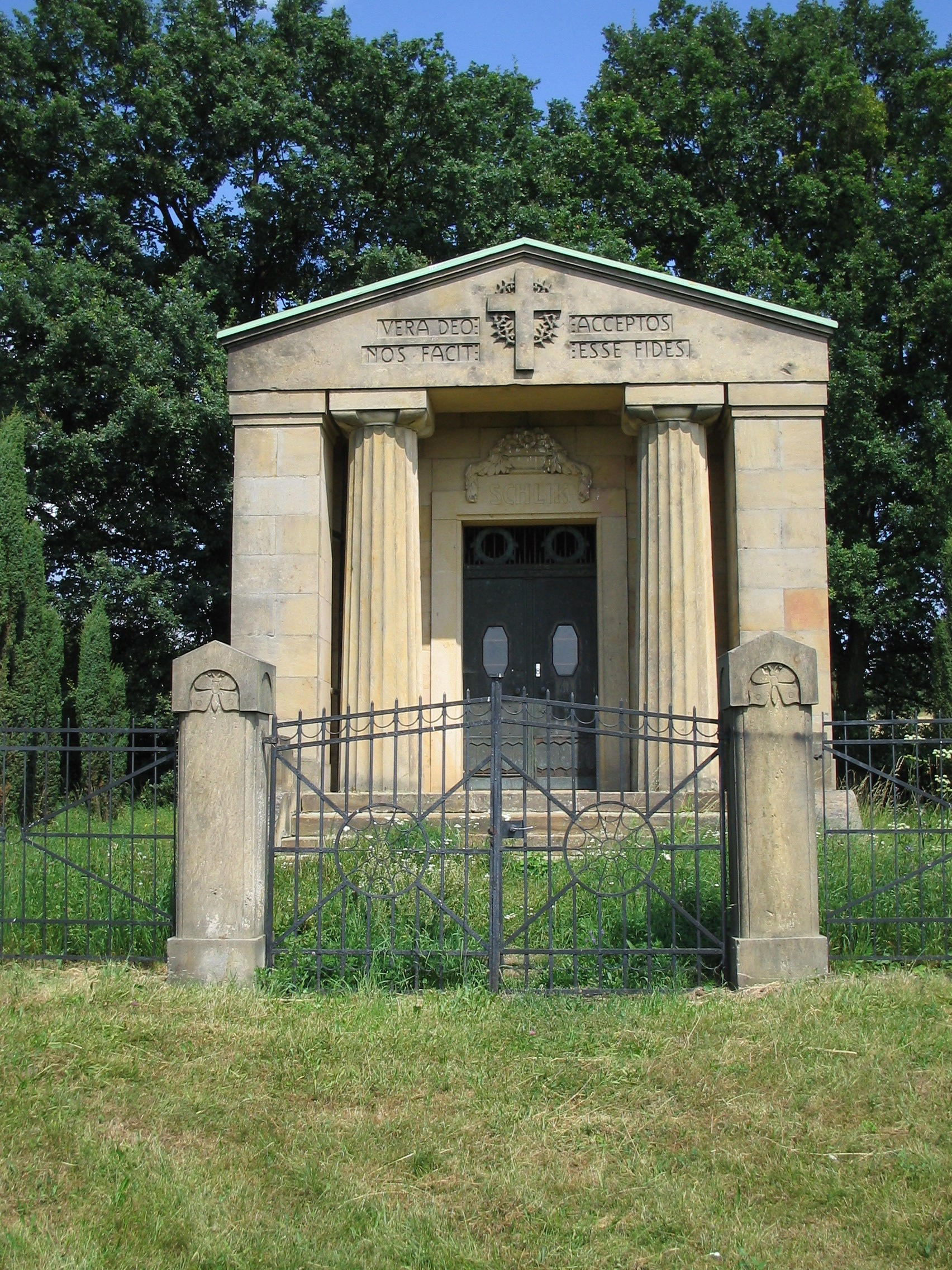 Tomb of the Šlik noble family in Veliš, Jičín District